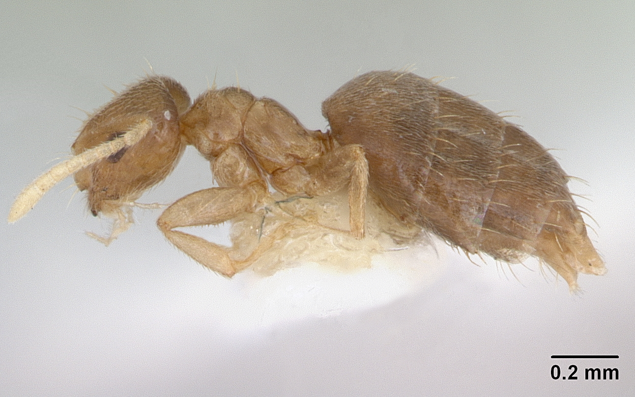 Profile view of ant Brachymyrmex heeri specimen casent0173478.